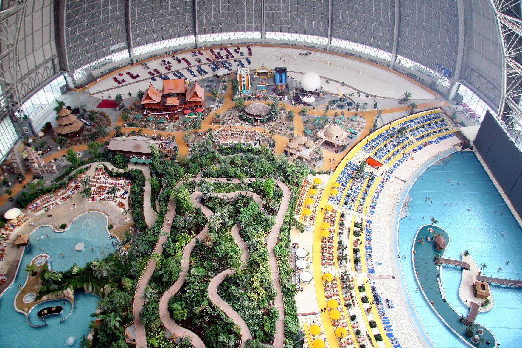 Tropical Islands Berlin '2009